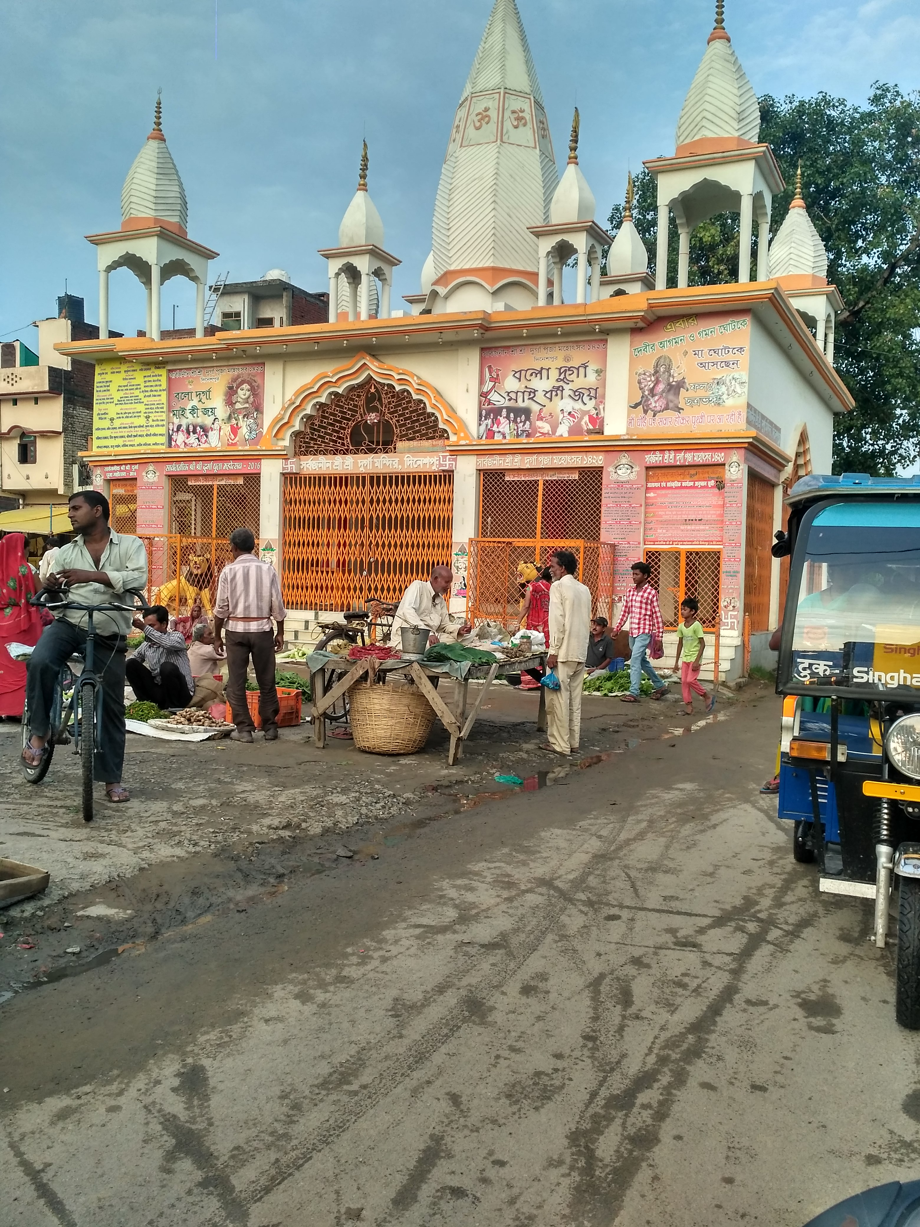 durga mandir in dineshpur, uttarakhand